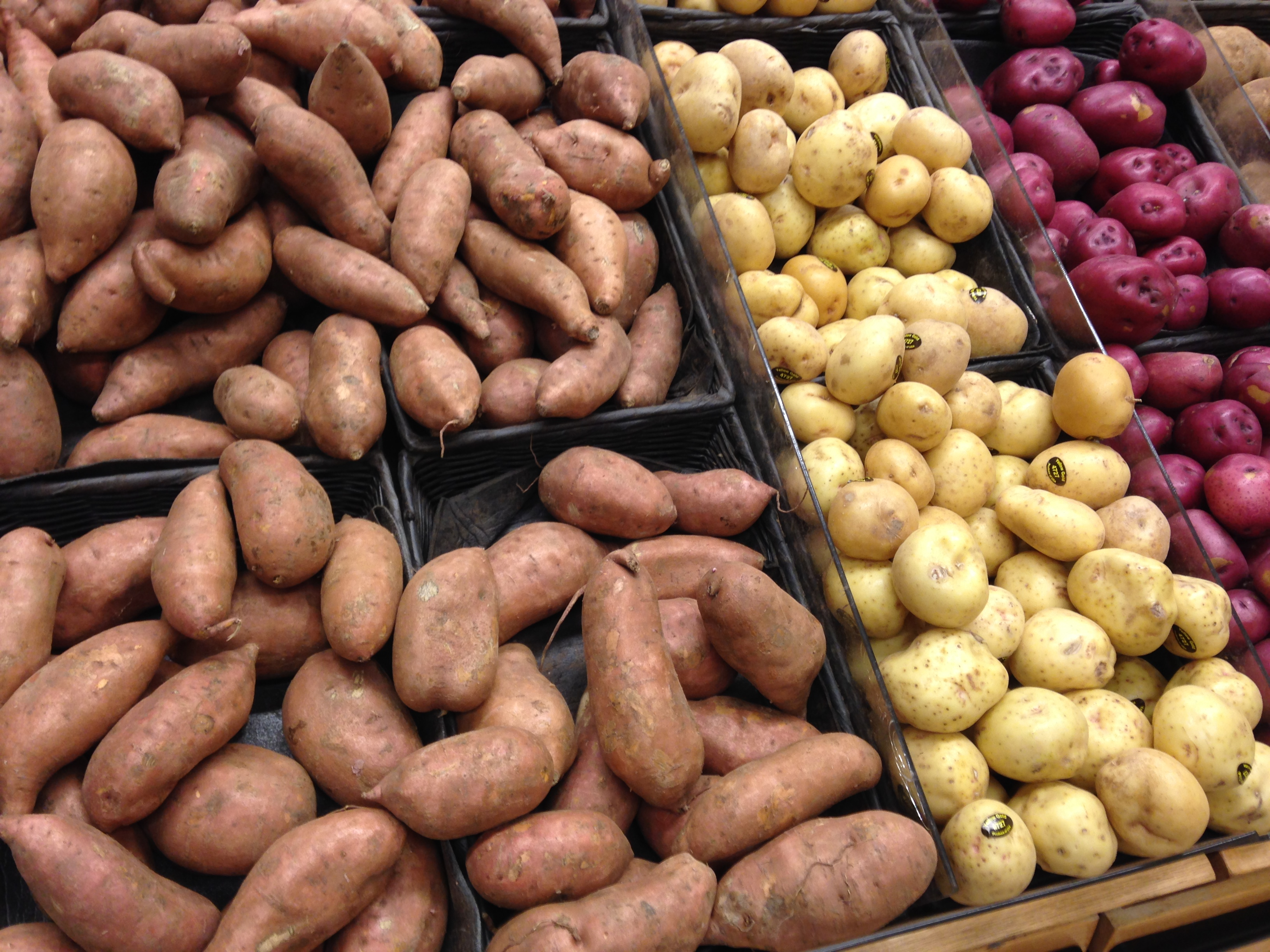 A potato display at a local supermarket in New Hampshire